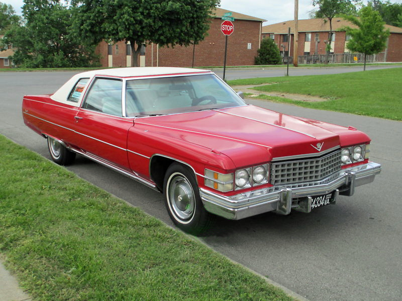 This is a picture of a vehicle (name of it is on the file name).